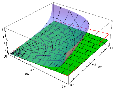 Unidirectional velocity addition as a function of coordinate velocities β12 and β23 in units of lightspeed c: the Galilean sum is outlined in red, relativistic coordinate-velocity β13 is shown in green, relativistic proper-velocity w13/c is shown with a radial mesh in color.